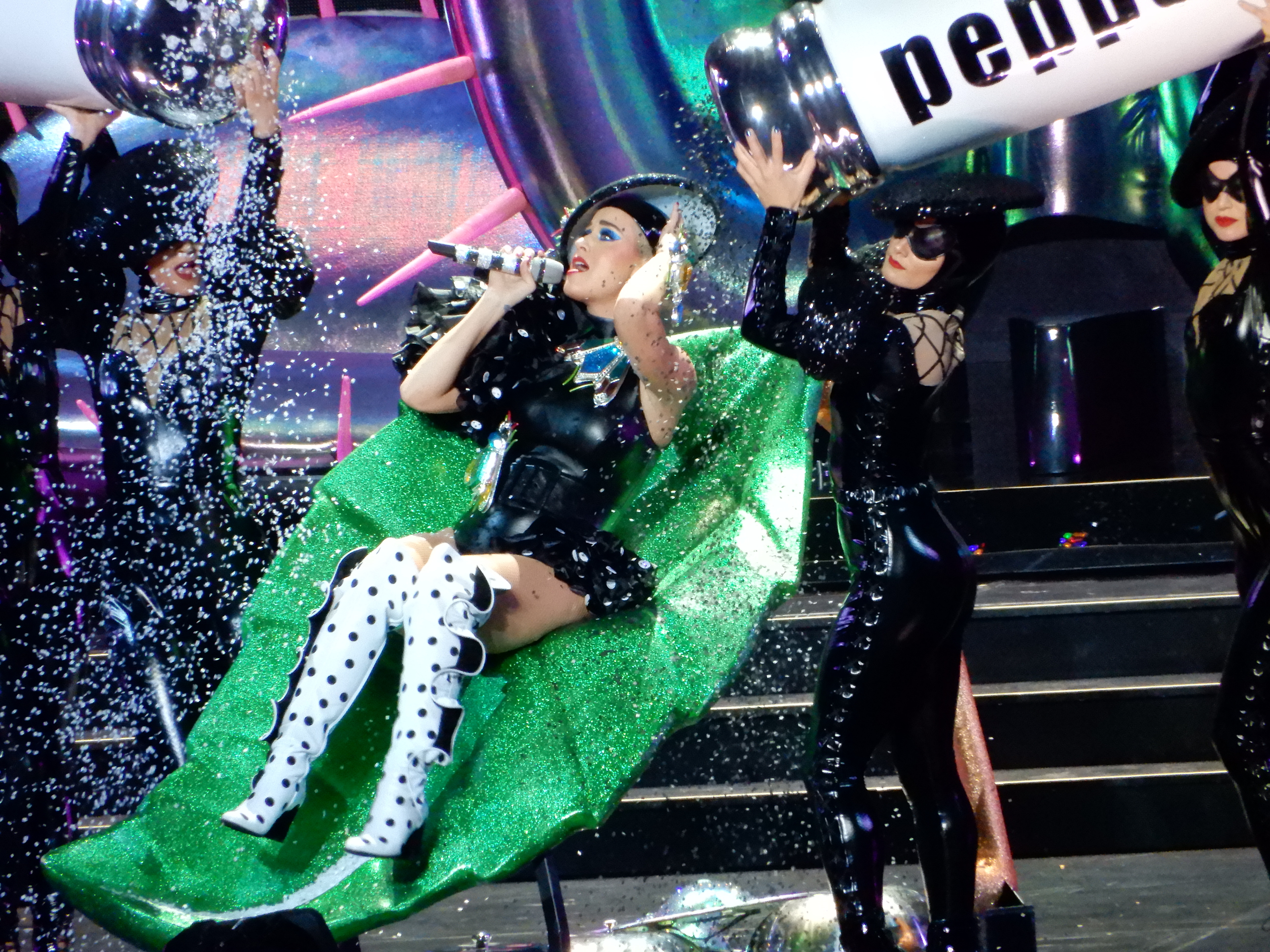 Katy Perry at Madison Square Garden